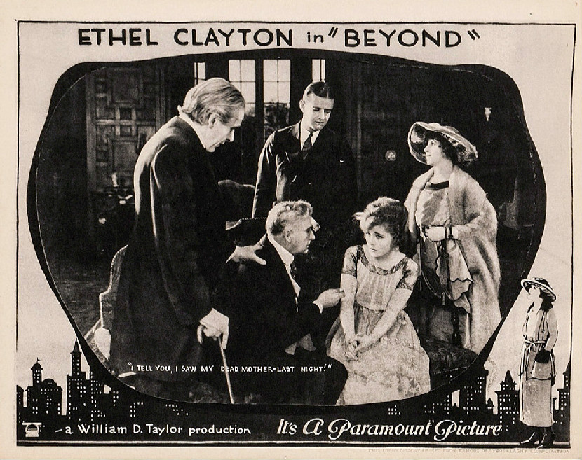 Lobby card from the American drama film Beyond (1921).